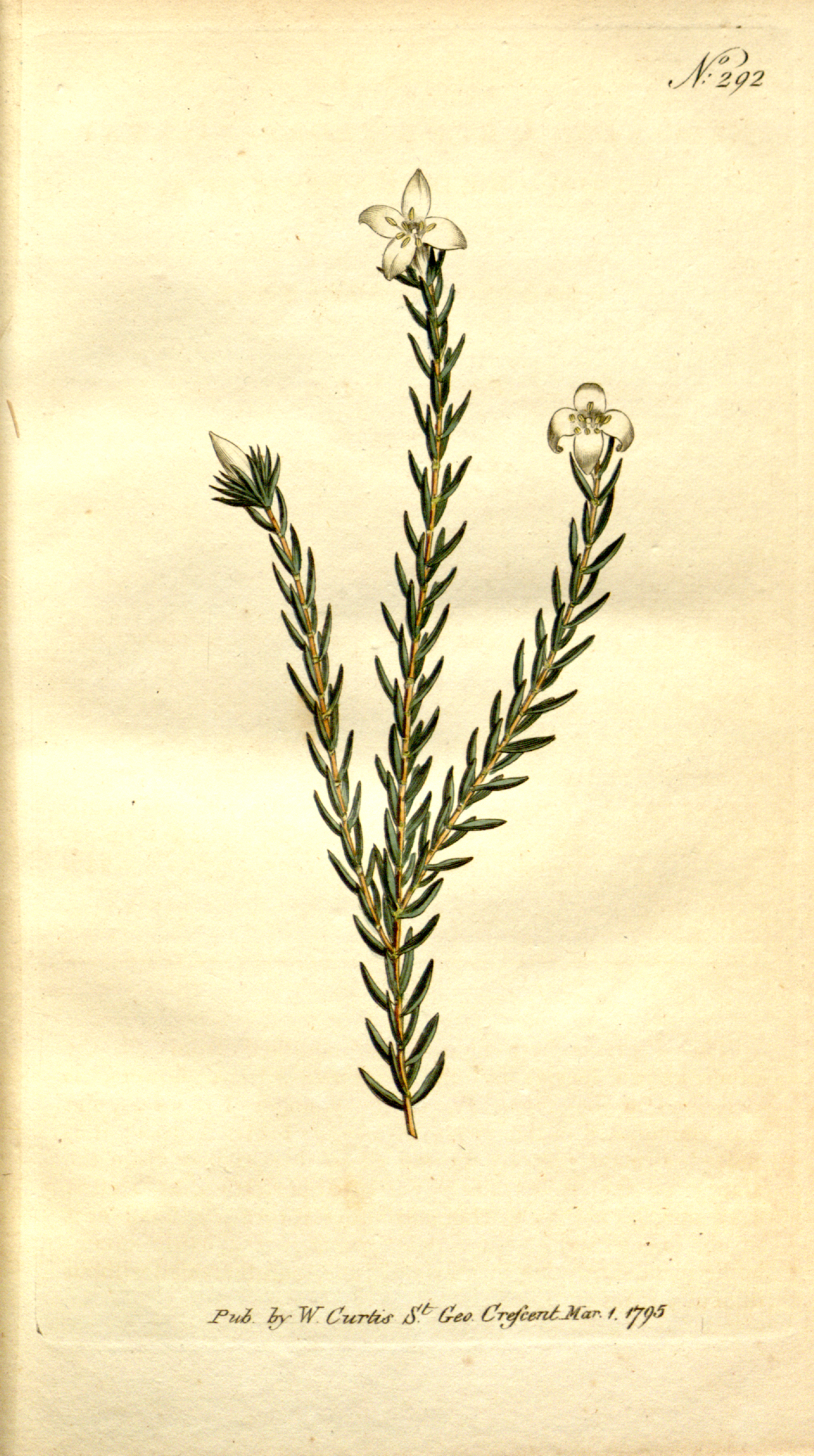 This is a plate from The Botanical Magazine, Volume 9. Thymelaeaceae (Passerina sp.)?